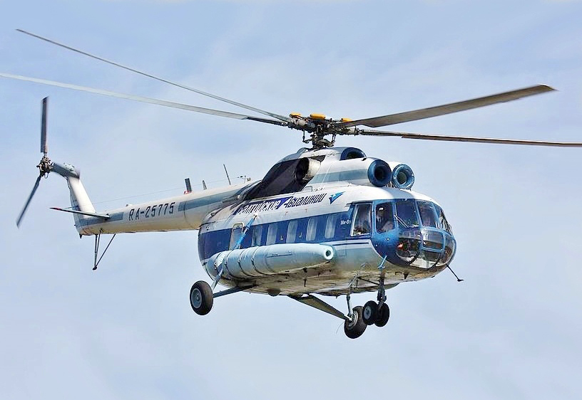 A Baltic Airlines Mil Mi-8P over the Peter and Paul Fortress Helipad (ULLQ), Russia (cropped version of the this file)